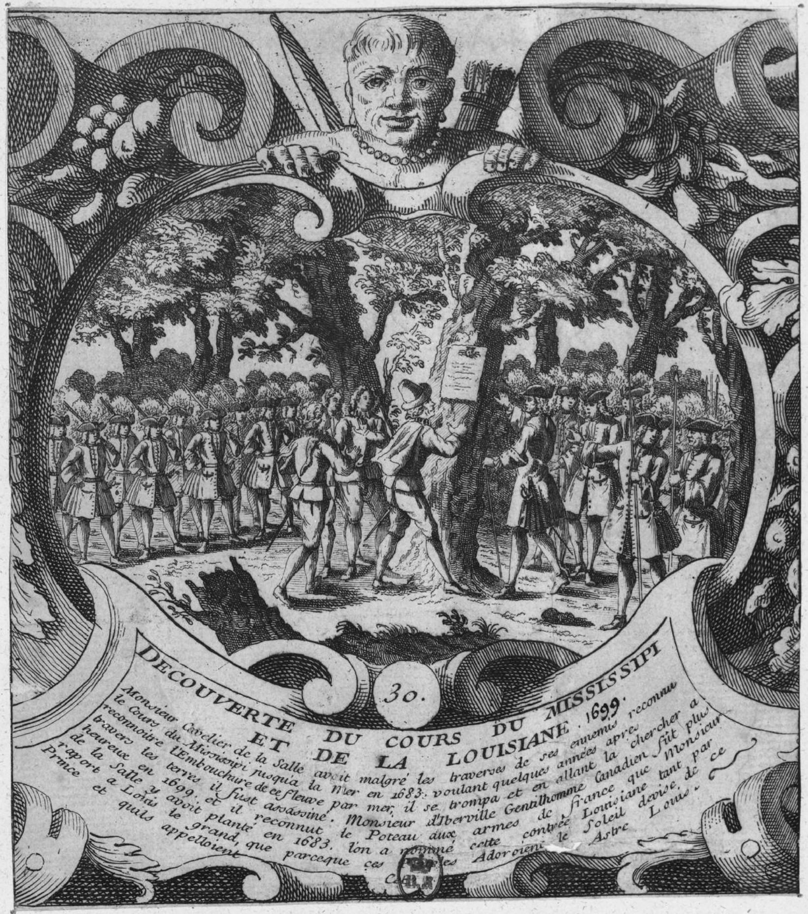 Print recalling the exploration of the Mississippi by Cavelier de La Salle and Iberville referring to his successor in the region. 1699. Approximate translation : Discovery of the Mississippi and Louisiana. 1699. Mr. Cavelier de la Salle had explored, despite his enemies, the Mississippi River up to the sea Wanting a few years later, recognizing the river mouth by the sea, he was assassinated. Mr. D'Iberville Canadian gentleman, even more lucky and he acknowledged, in 1699, the insignia of the post to France as Monsieur de la Salle was planted in 1683. We called this region Louisiana in honor of Louis XIV and because its inhabitants worship the sun under the name Louis Star.